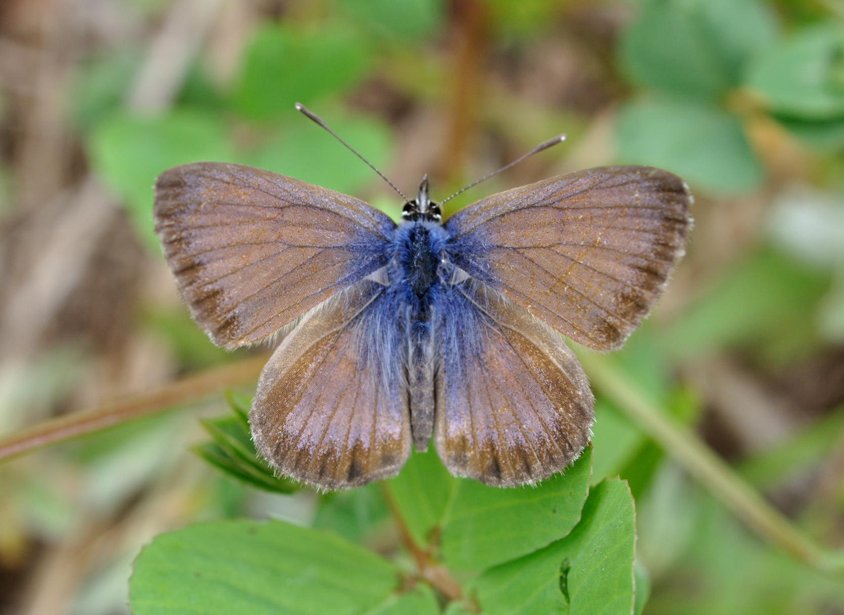 Male Canary Blue (Cyclyrius webbianus) in Puerto de la Cruz, Tenerife, Spain.